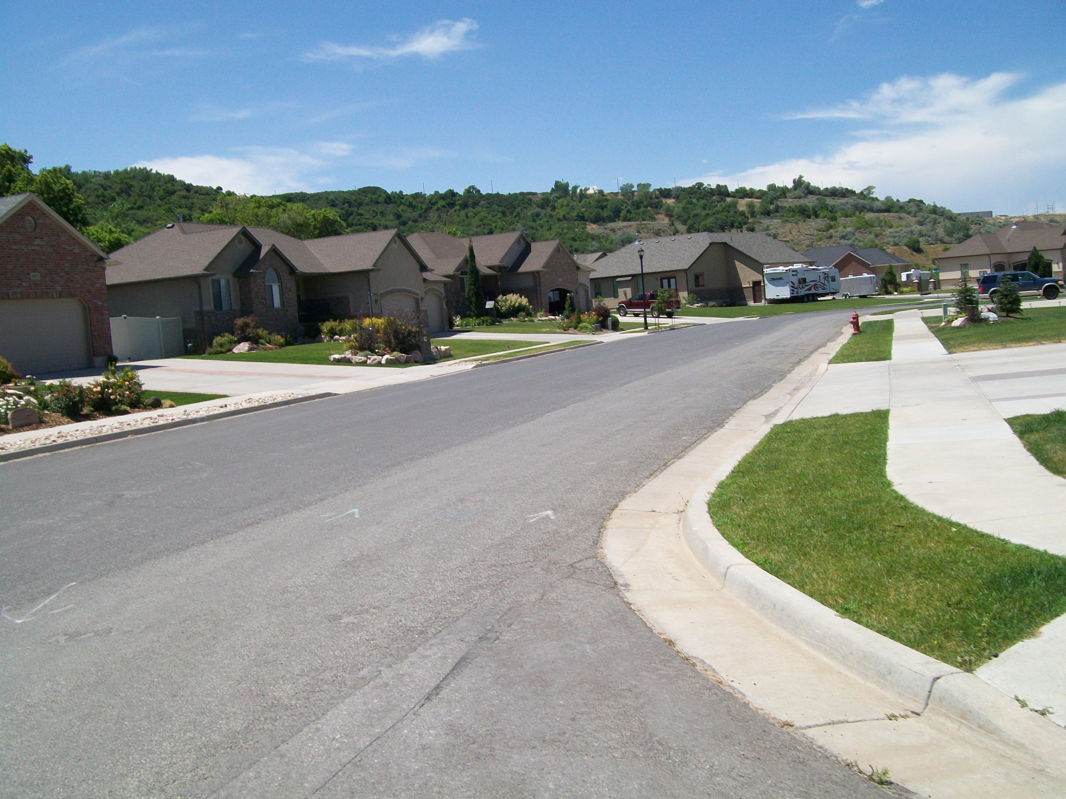 This is the view near my house in South Weber City, Utah. It was taken for a homework assignment to add to Google Maps.